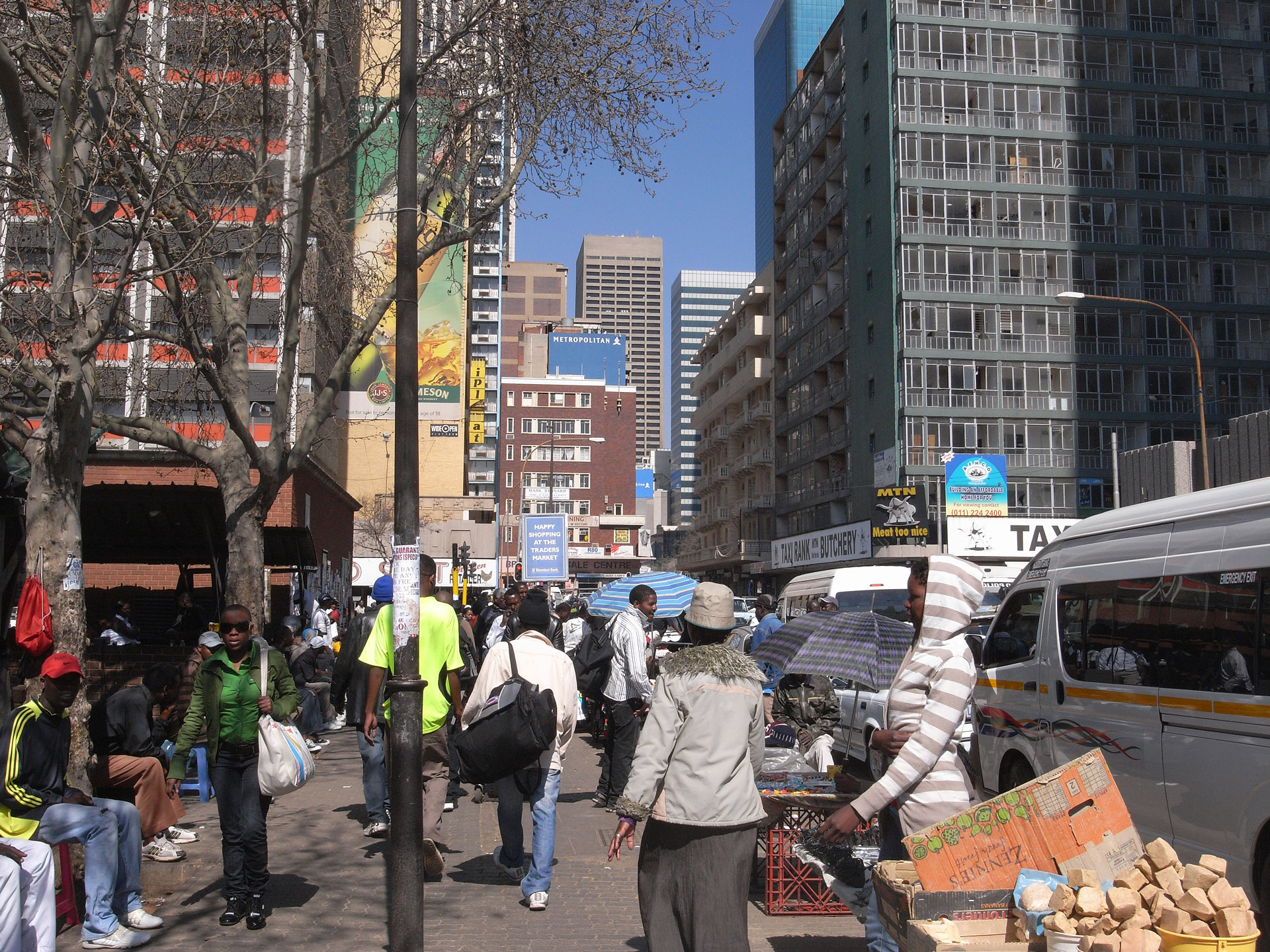 The intersection of M11 & Plein St. (Southeast of Johannesburg Park Railway Station)